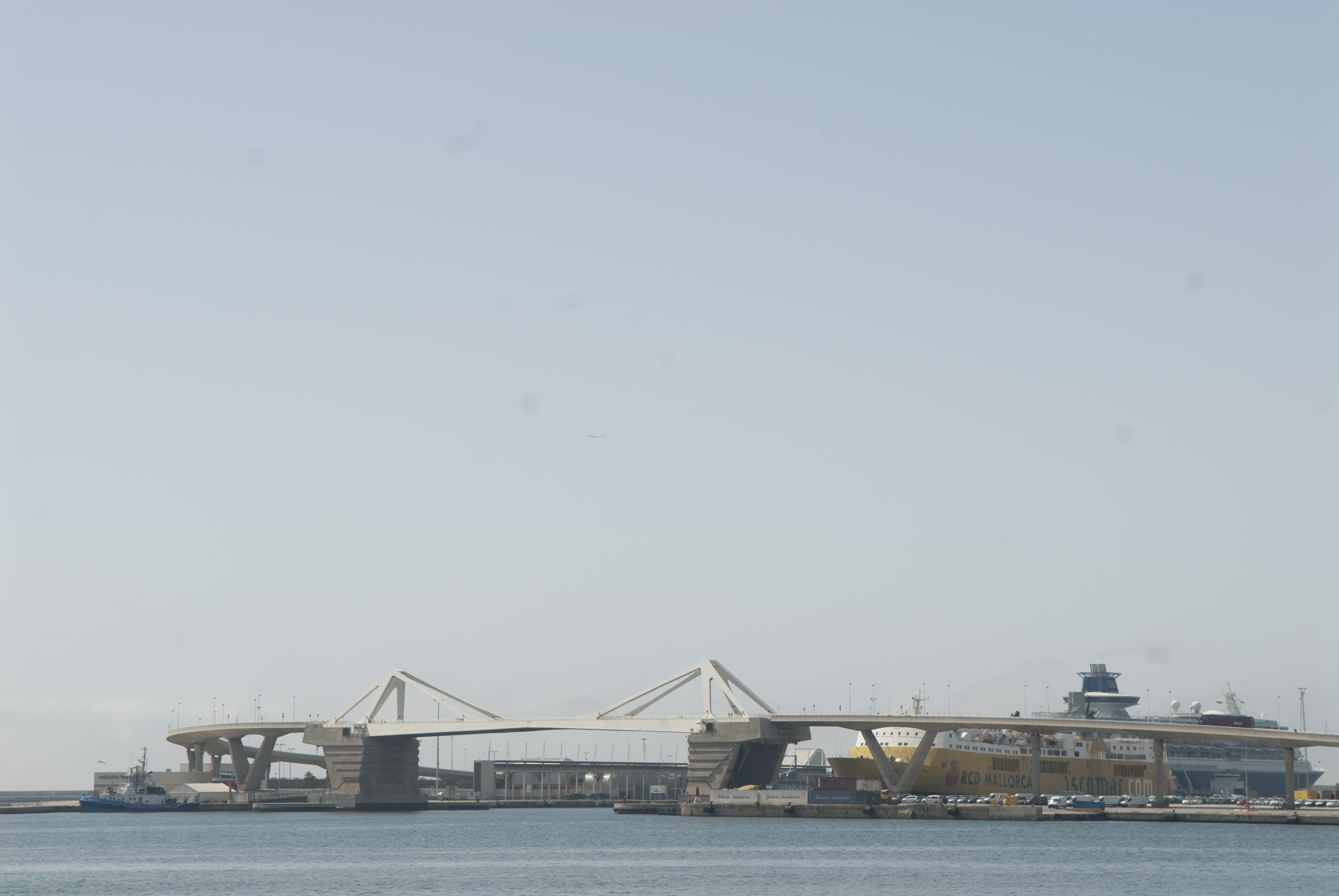 Photo of Porta d'Europa